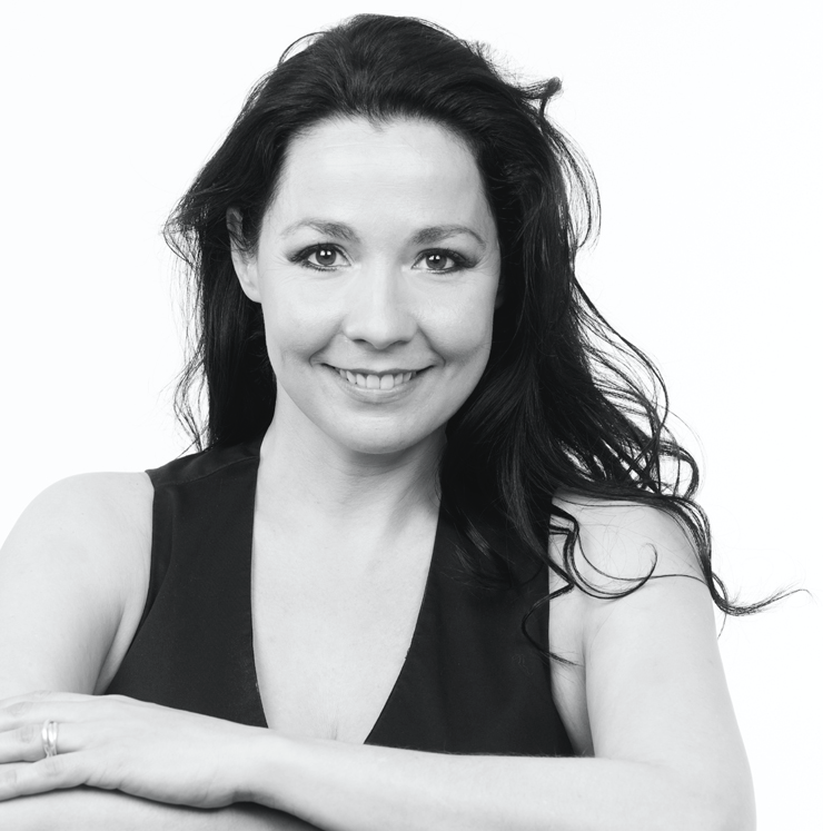 Txe Arana